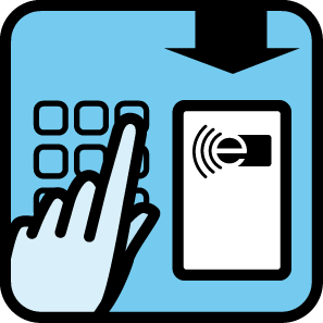 Pictogram eTicket